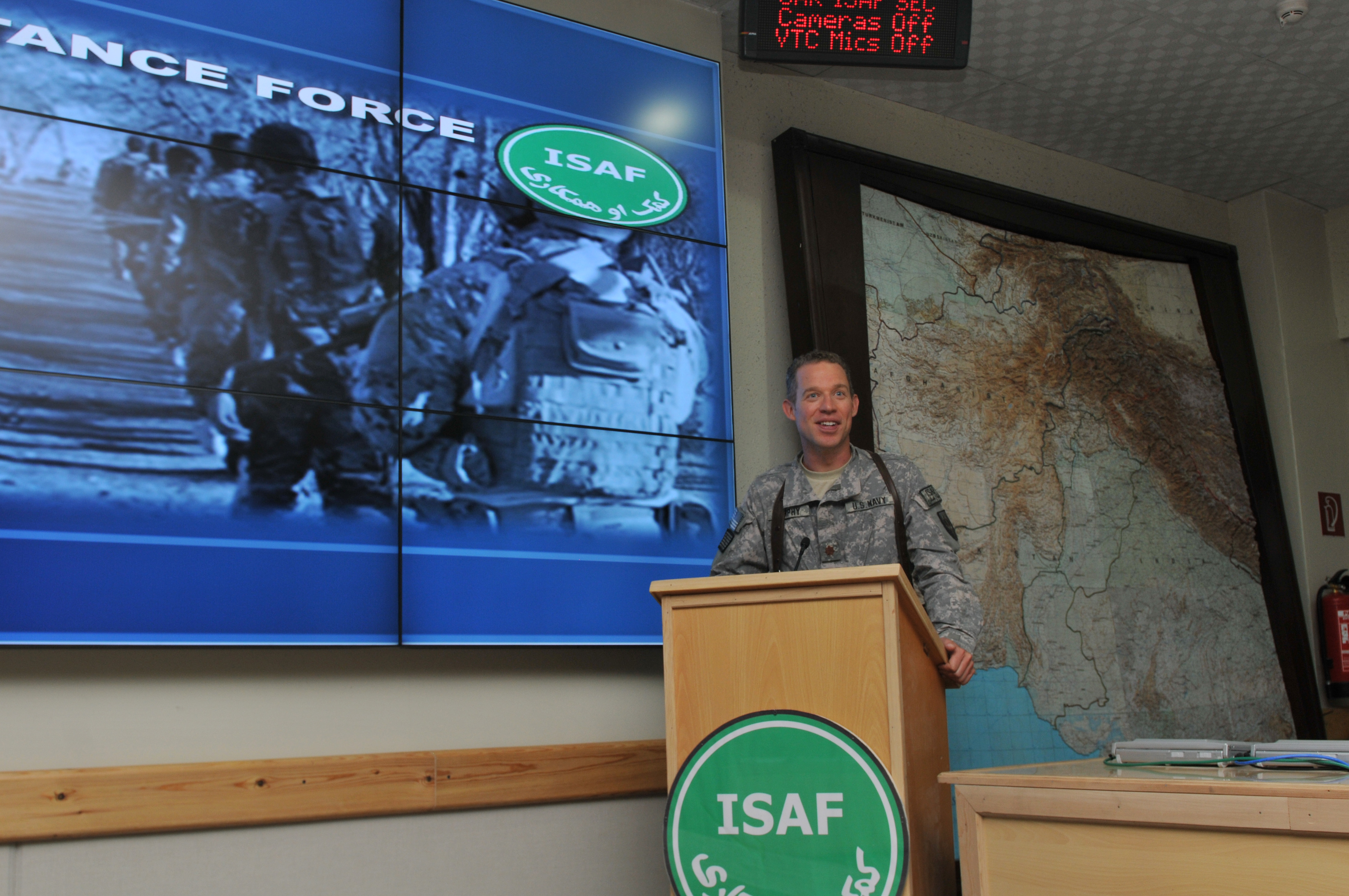 LCDR Morgan Murphy briefs General David Petraeus in Afghanistan